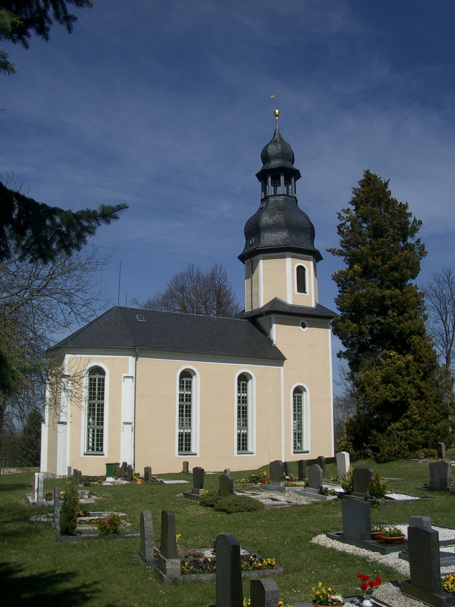 St. Laurentius church in Landwüst